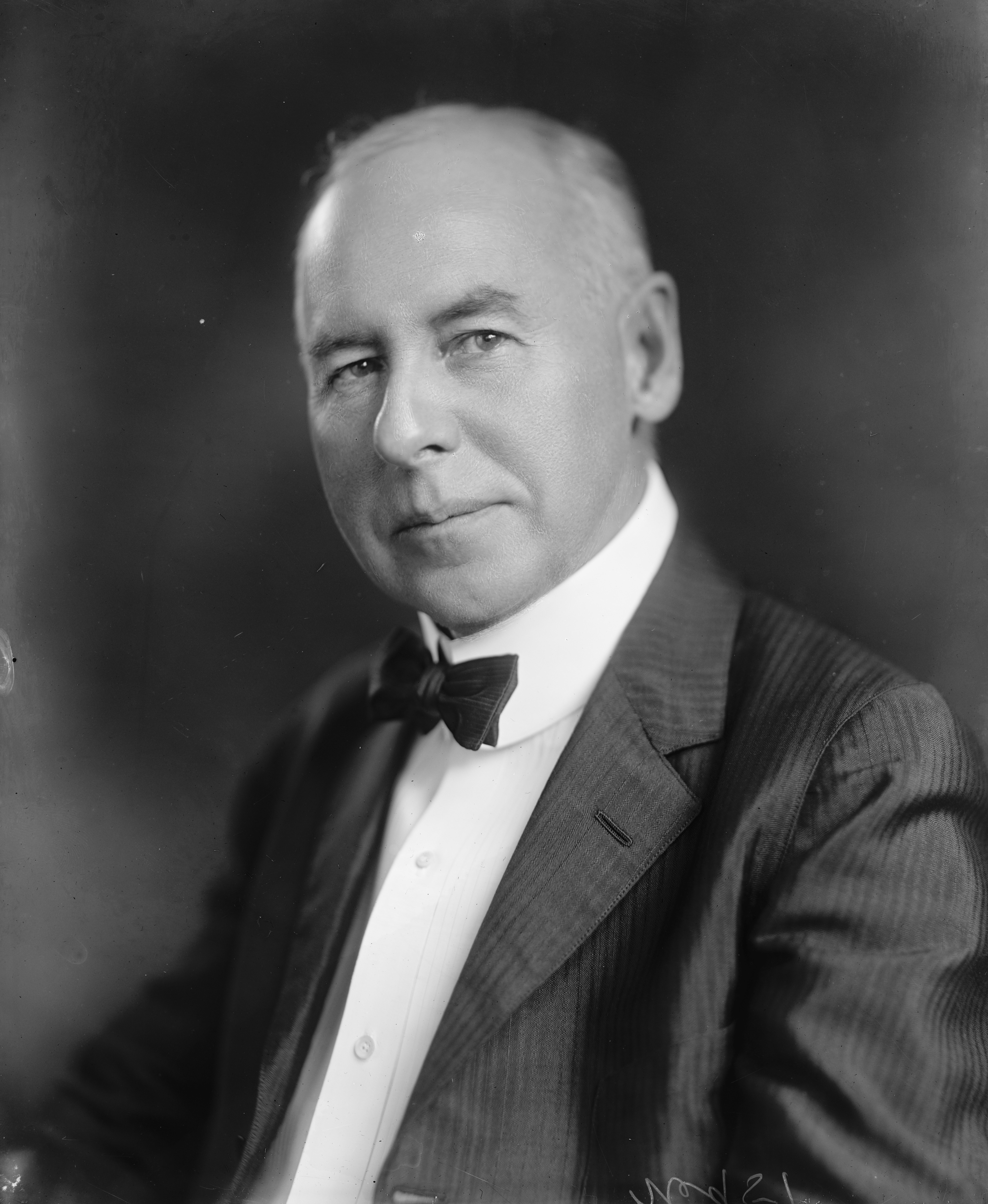 Title: FREAR, JAMES A. HONORABLE Abstract/medium: 1 negative : glass ; 8 x 10 in. or smaller